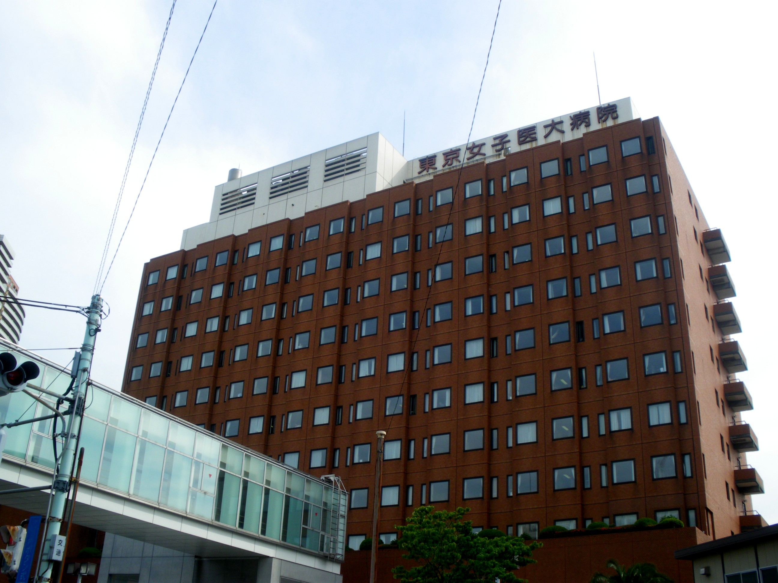 A photo of Tokyo Women's Medical University Hospital central ward Kawadacho,Shinjuku-ku,Tokyo,Japan.